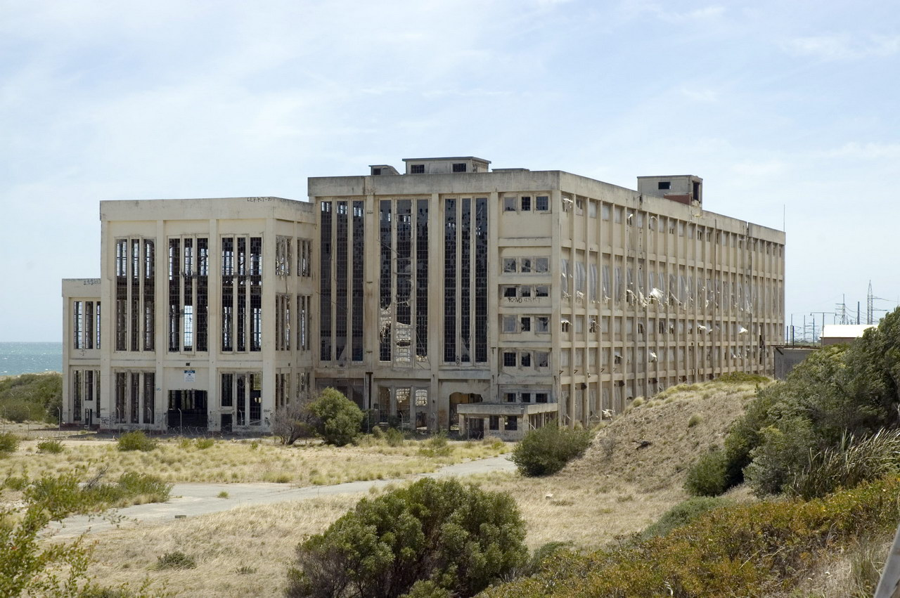 Old Power Station - South Fremantle, Western Australia. See also this 1957 image.